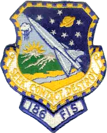 120th Fighter Group emblem with 186th Fighter-Interceptor Squadron tab - Emblem